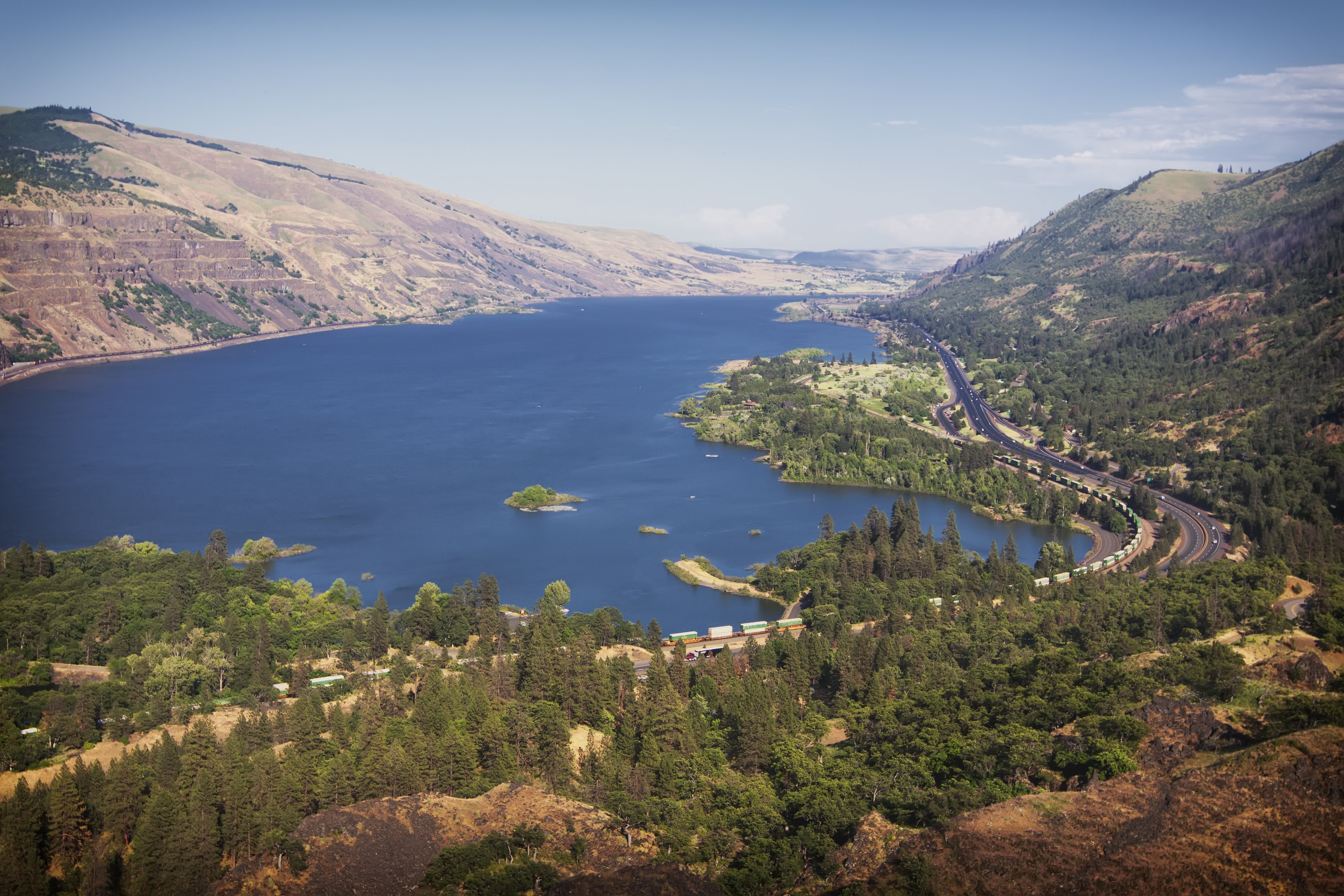 Columbia River from Rowena Crest Viewpoint